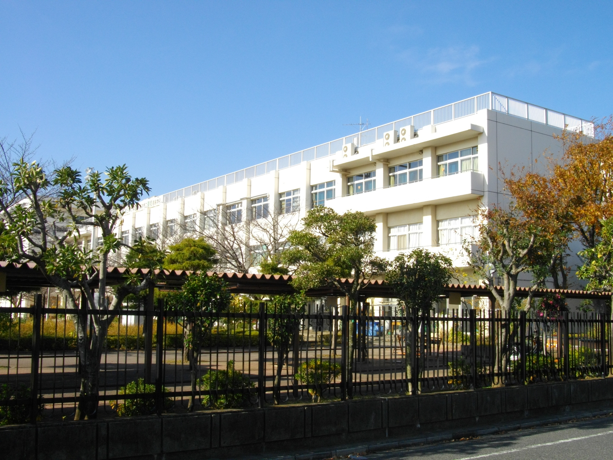 Nousan High School